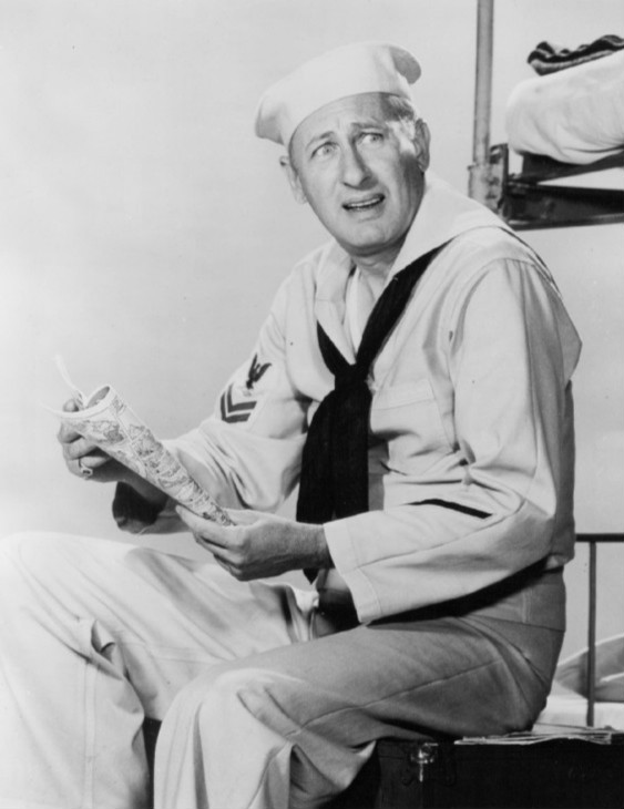 Photo of Carl Ballantine as Lester Gruber from the television program McHale's Navy.